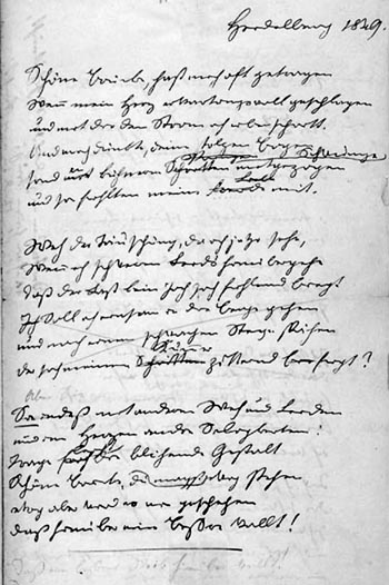 Facsimile of a poem by Gottfried Keller, Heidelberg 1849.